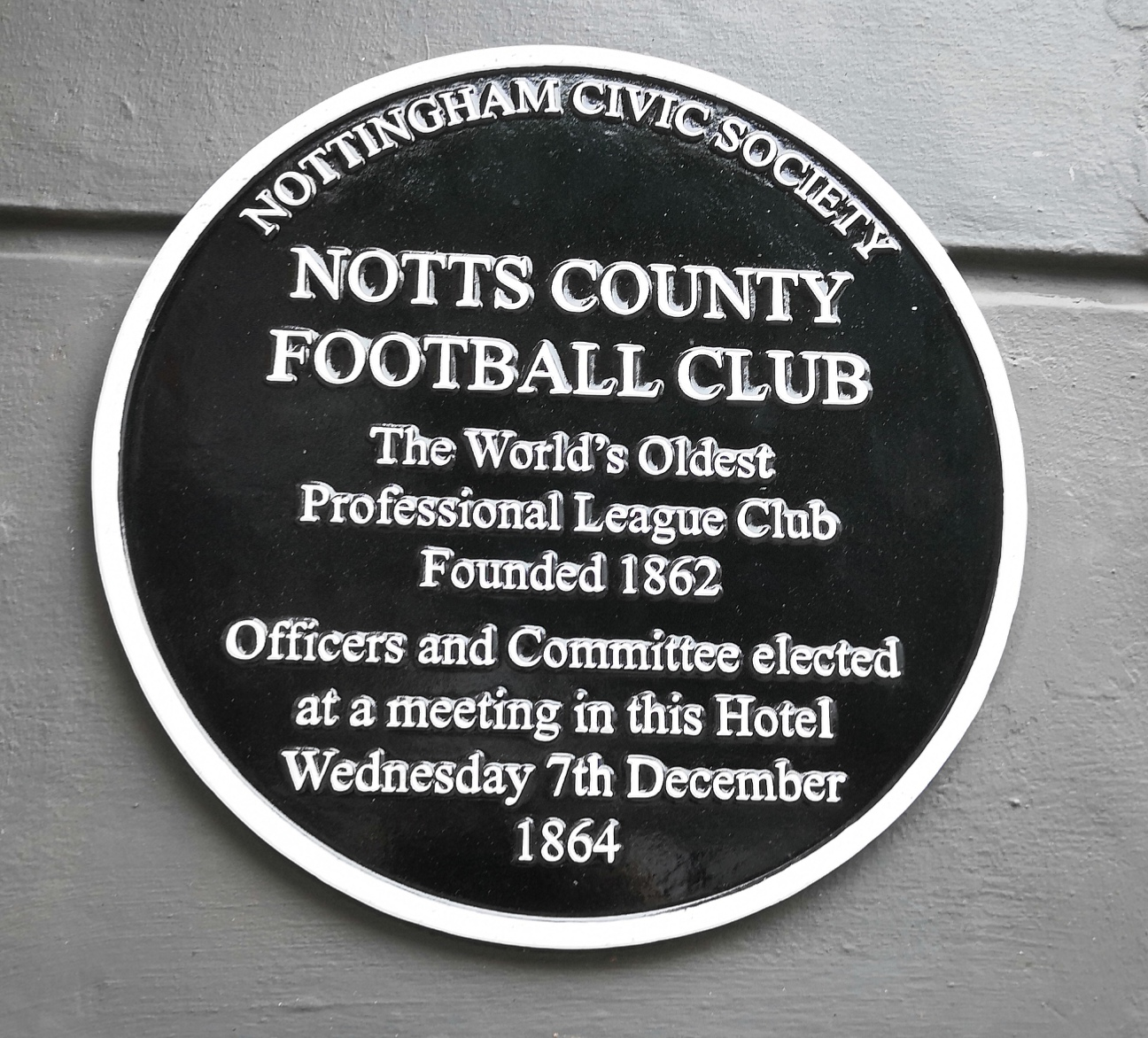 Plaque at the George Hotel Nottingham commemorating Notts County Football Club first meeting to elect Officers and Committee on 7 December 1864